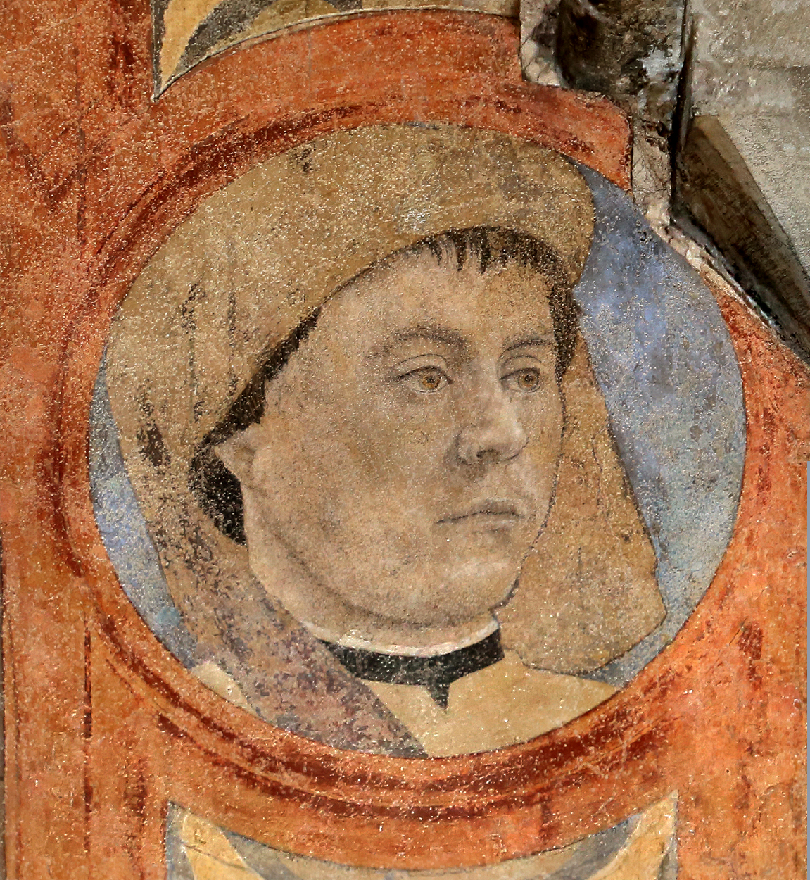 Adoration of the Shepherds by Alesso Baldovinetti